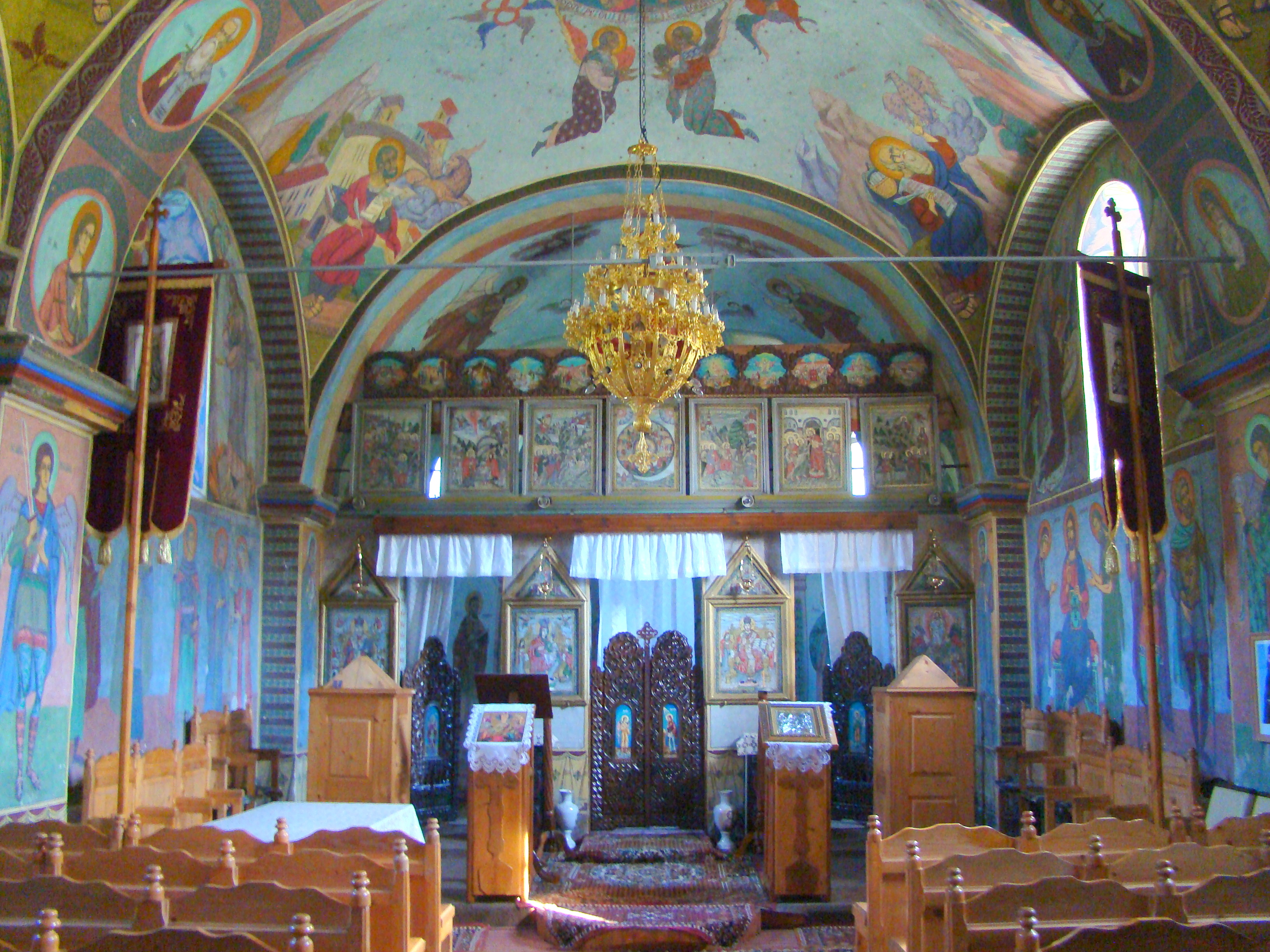 Church of the Transfiguration in Almașu Mare, Alba county, Romania